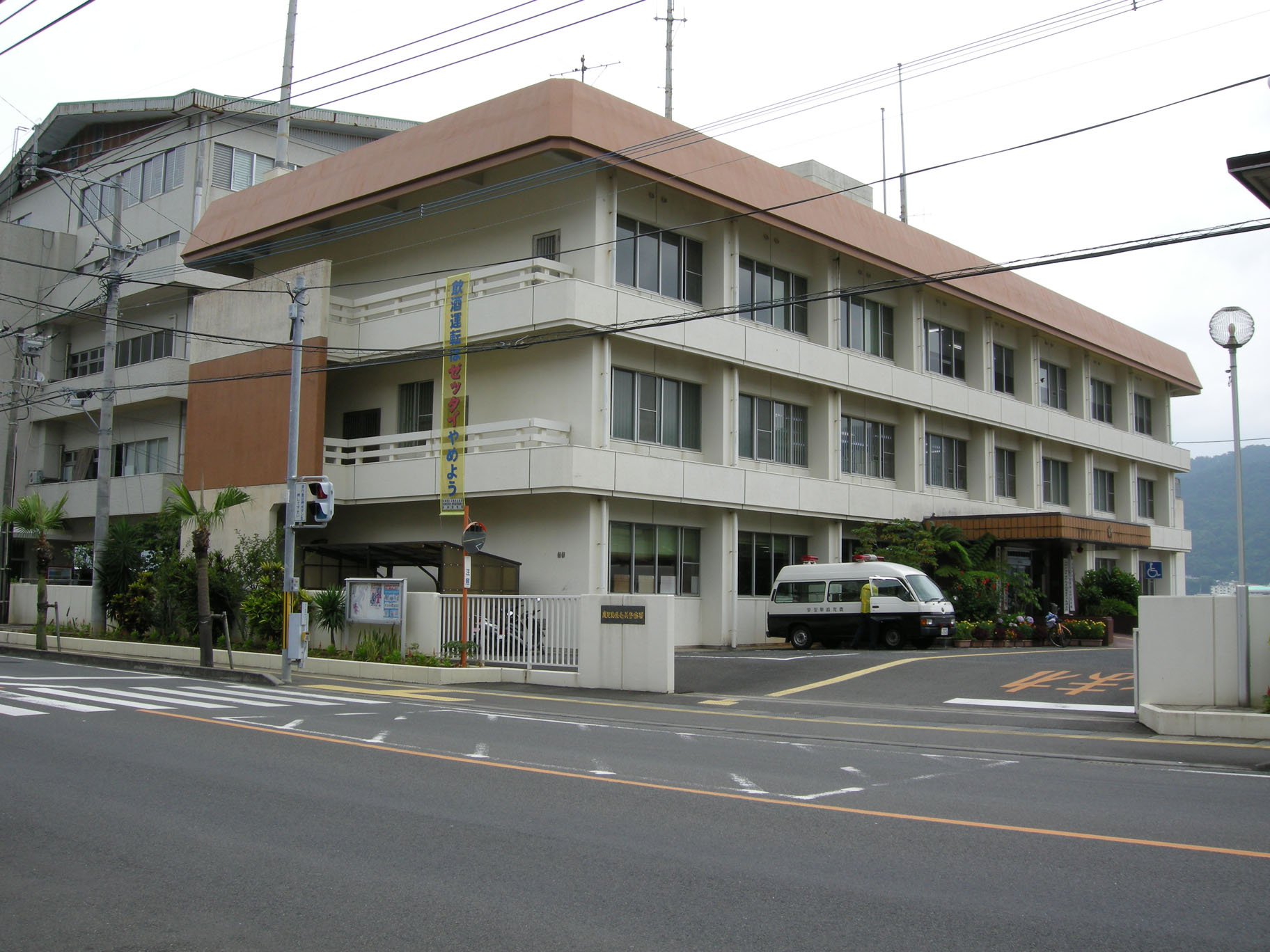 Amami police station, Amami, Kagoshima, Japan